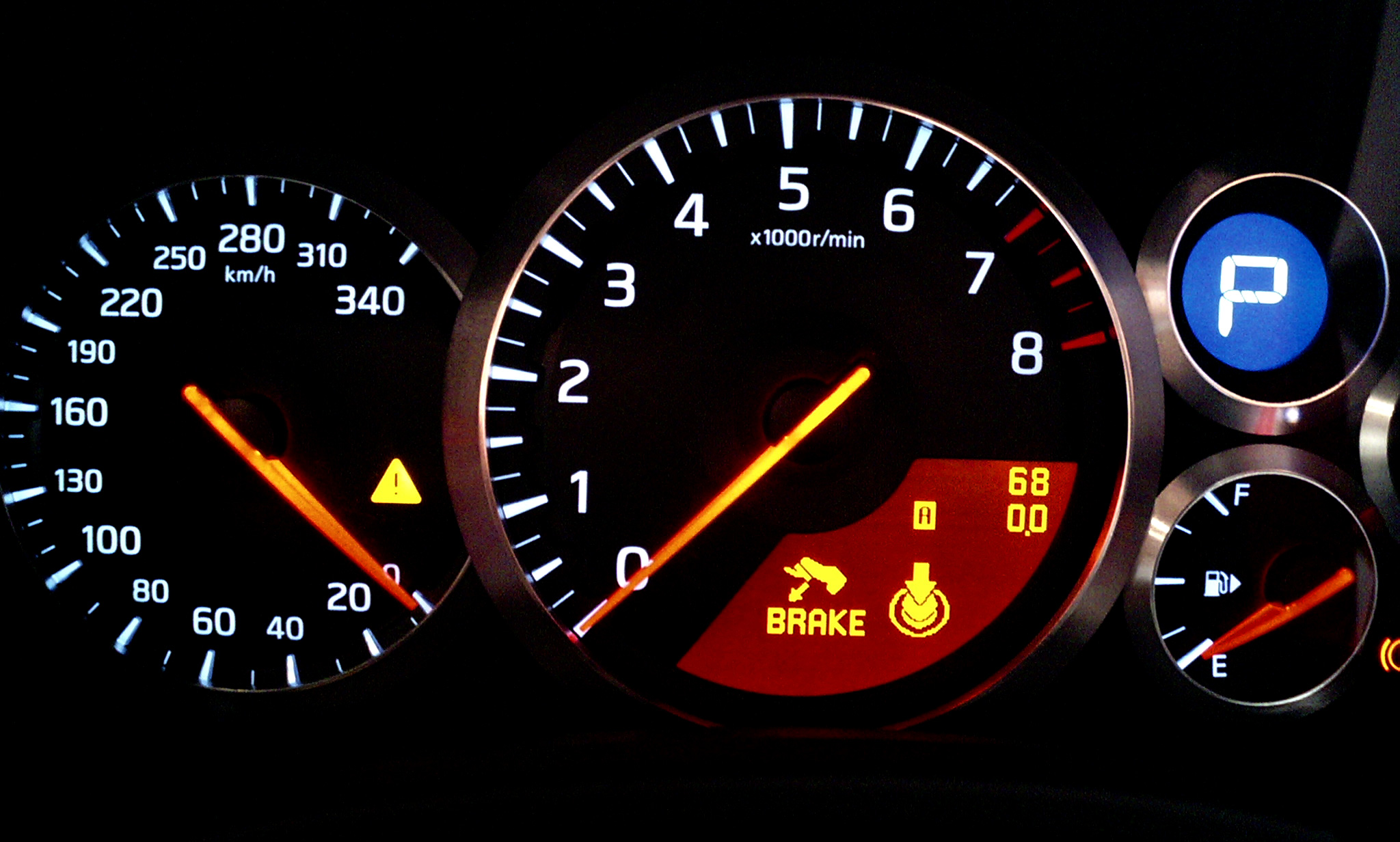 @ NISSAN Gallery Ssapporo. 2007/10/28